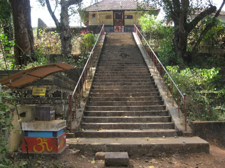 Puthur Sri Maha Siva Temple